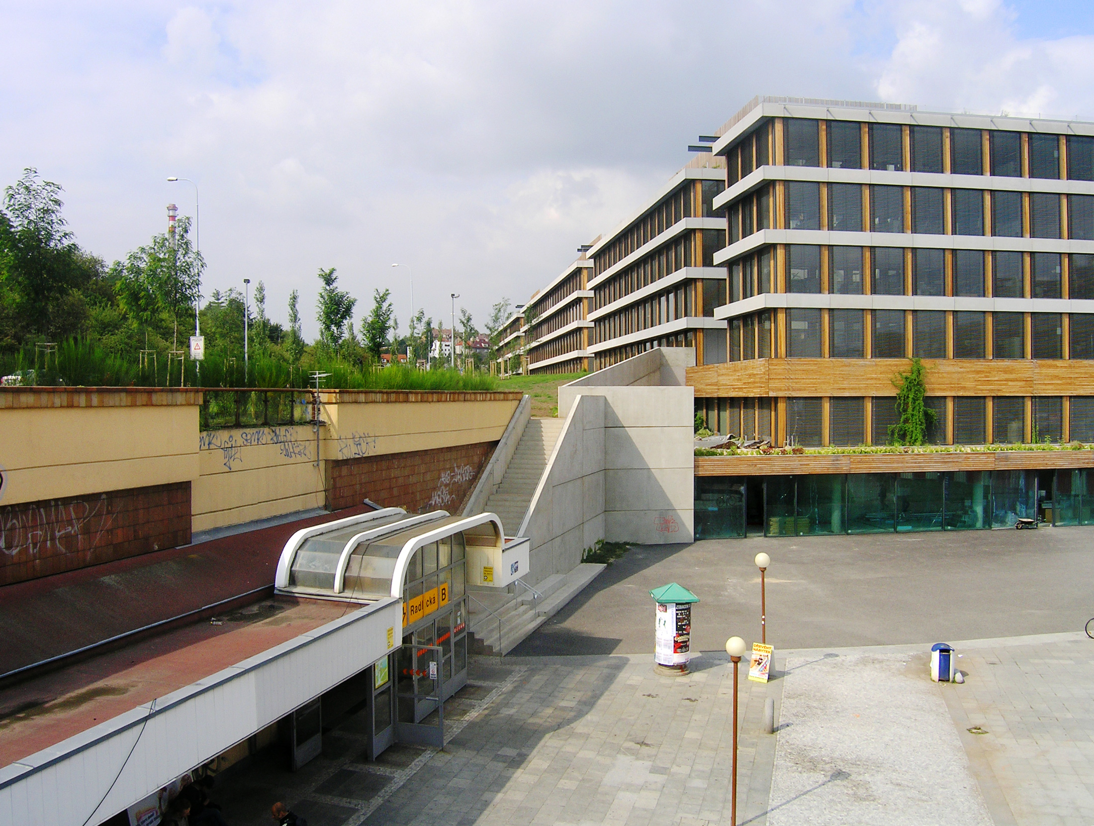 Entry to Radlická metro station in Radilce, Prague